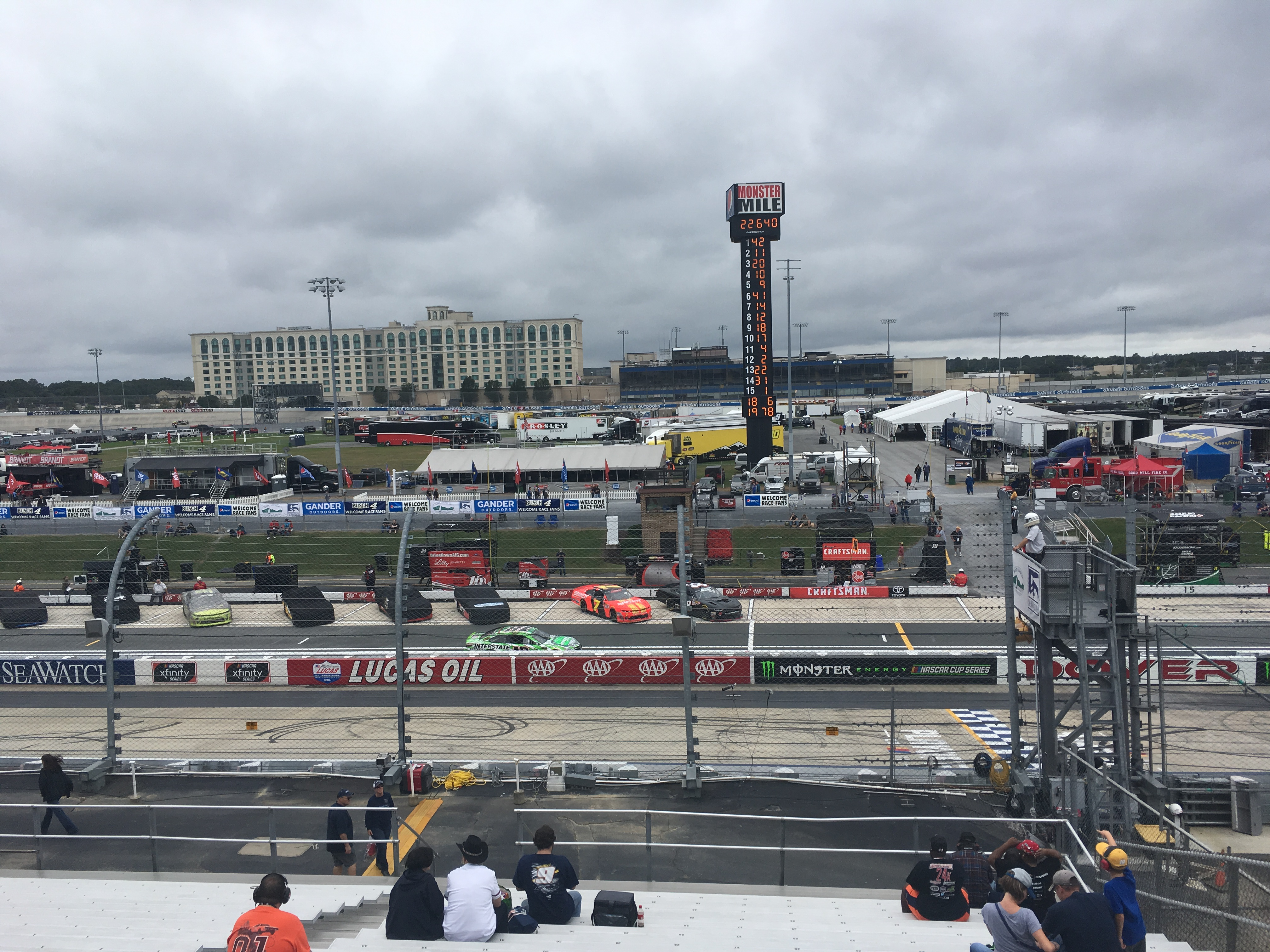 Final practice for the 2018 Gander Outdoors 400 at Dover International Speedway viewed from the frontstretch. Kyle Busch (#18) drives by on pit road.